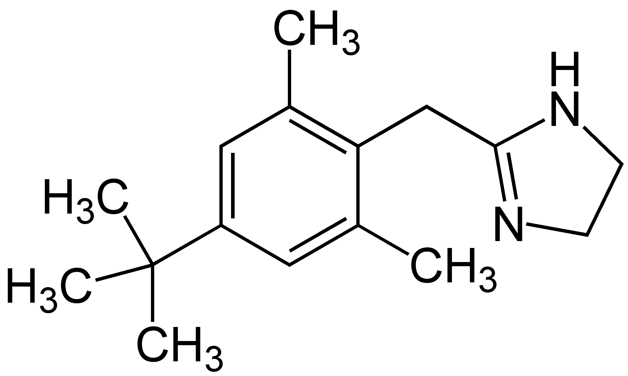 Xylometazoline_Structural_Formula